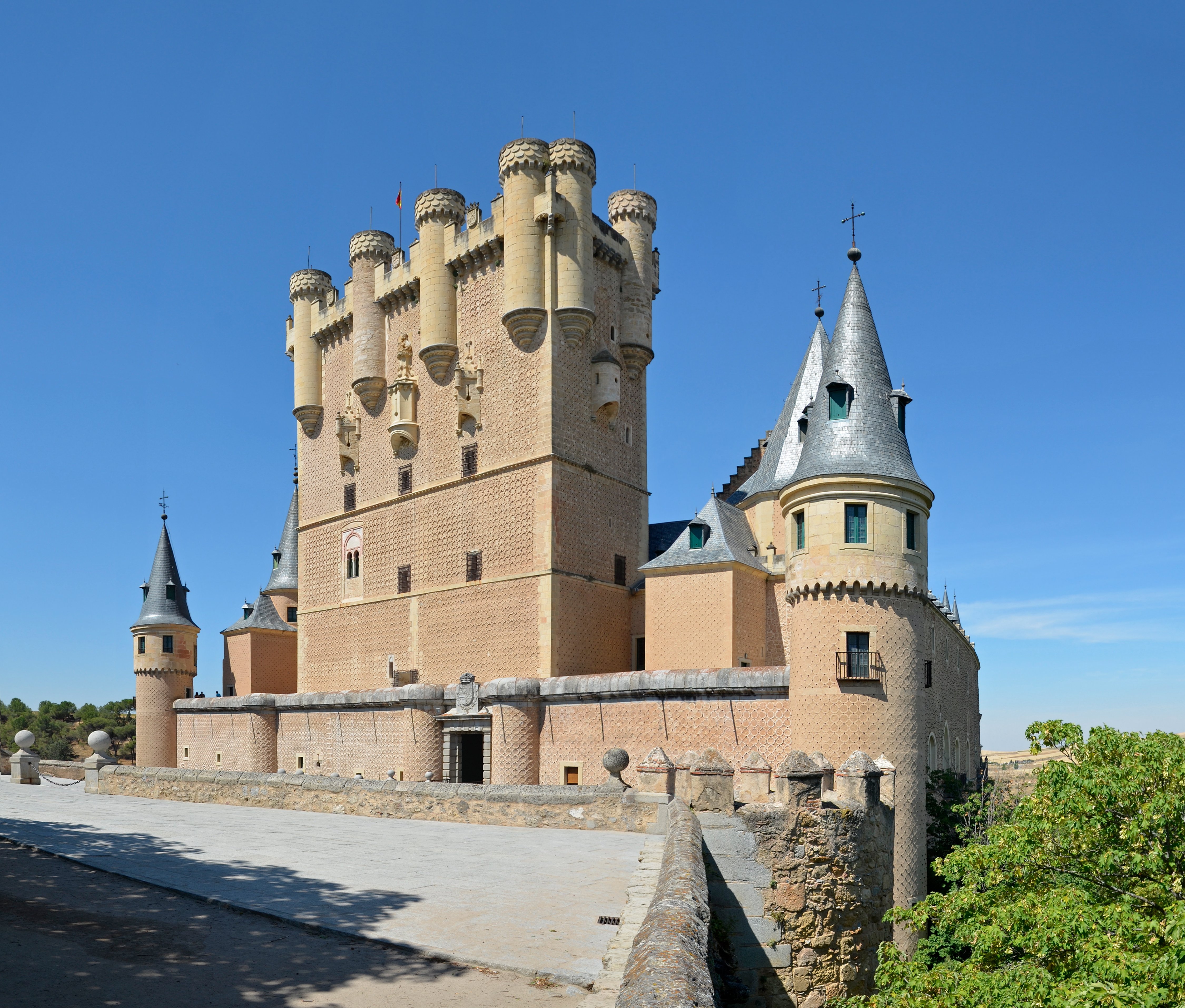 Main facade of the Alcazar of Segovia - Spain.